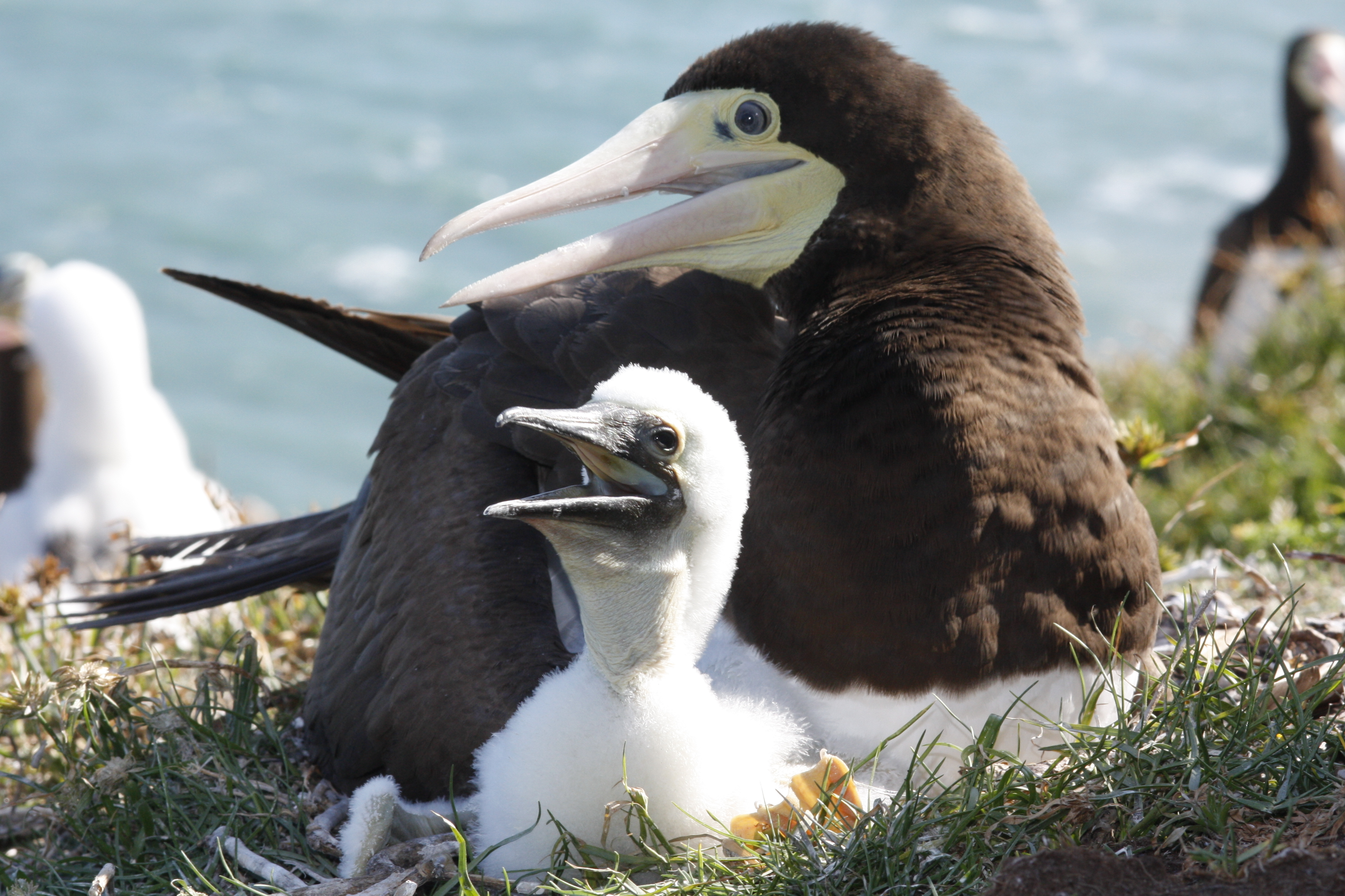 Mom and son of Sula leucogaster in the Moleques do Sul archipelago, southern Brazil.